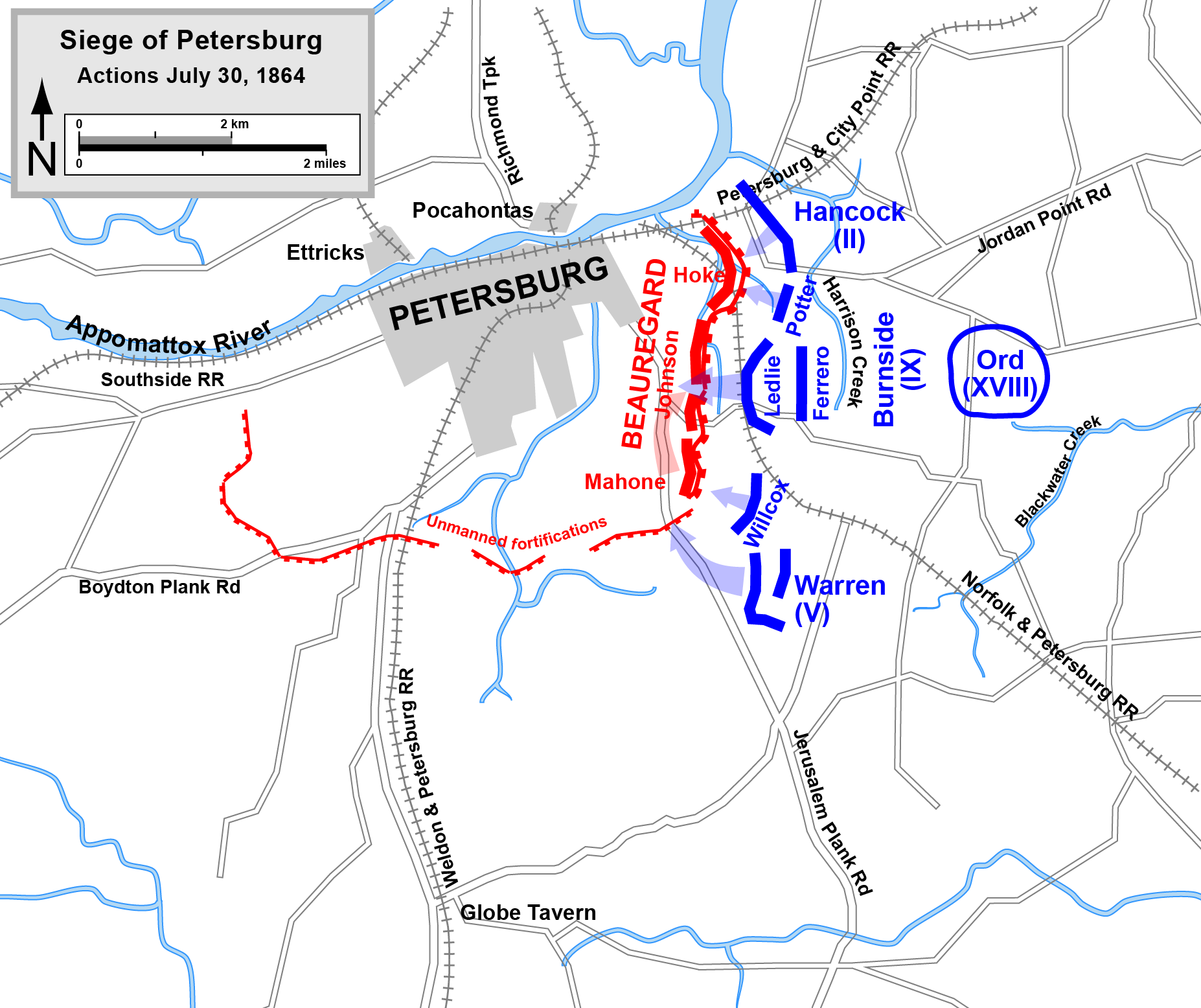 Map of the Siege of Petersburg of the American Civil War, Battle of the Crater, June 30, 1864